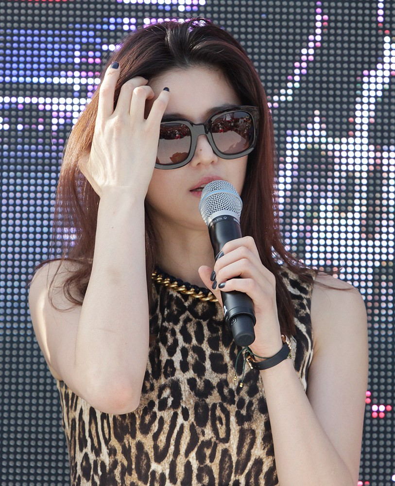 Jun Ji-hyun in 2012